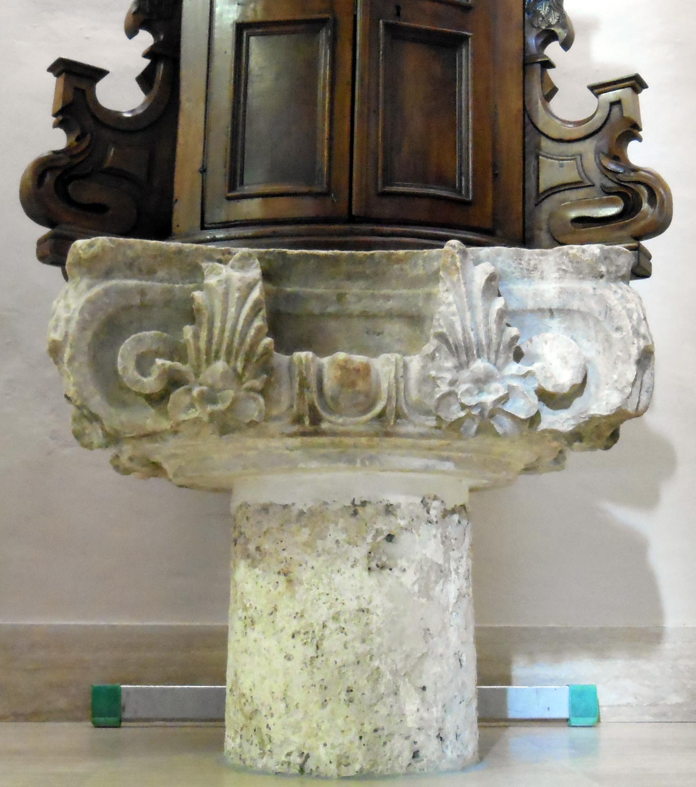 Italy, Latium, province of Frosinone, Trevi nel Lazio, church of Santa Maria Assunta, ancient roman ionic-italic capital